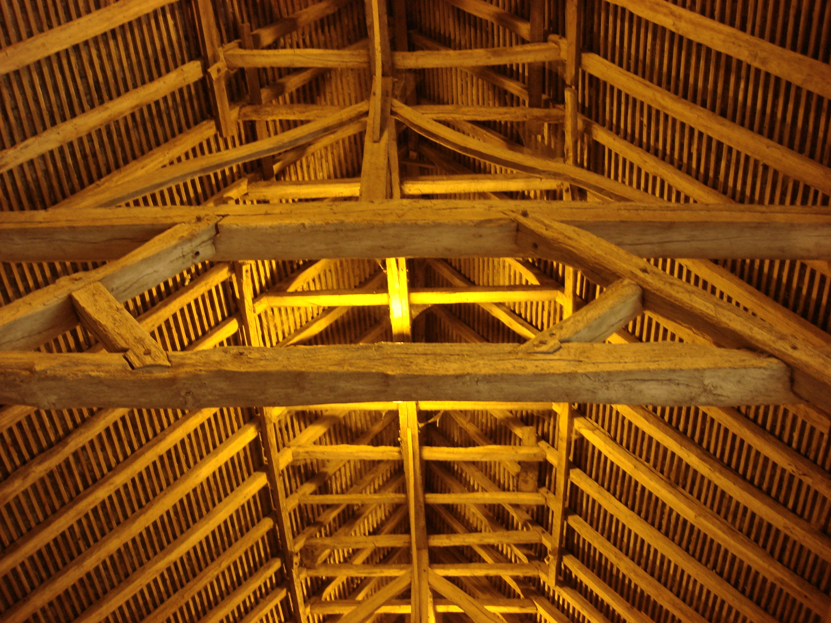 The Barley Barn, 40 Metres North West of Cressing Temple Farmhouse